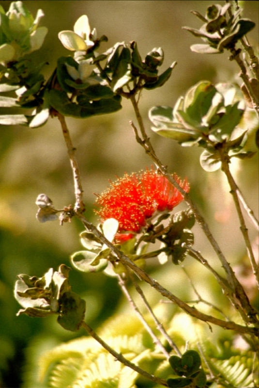 Lehua blossoms (ʻōhiʻa lehua), Hawaiʻi